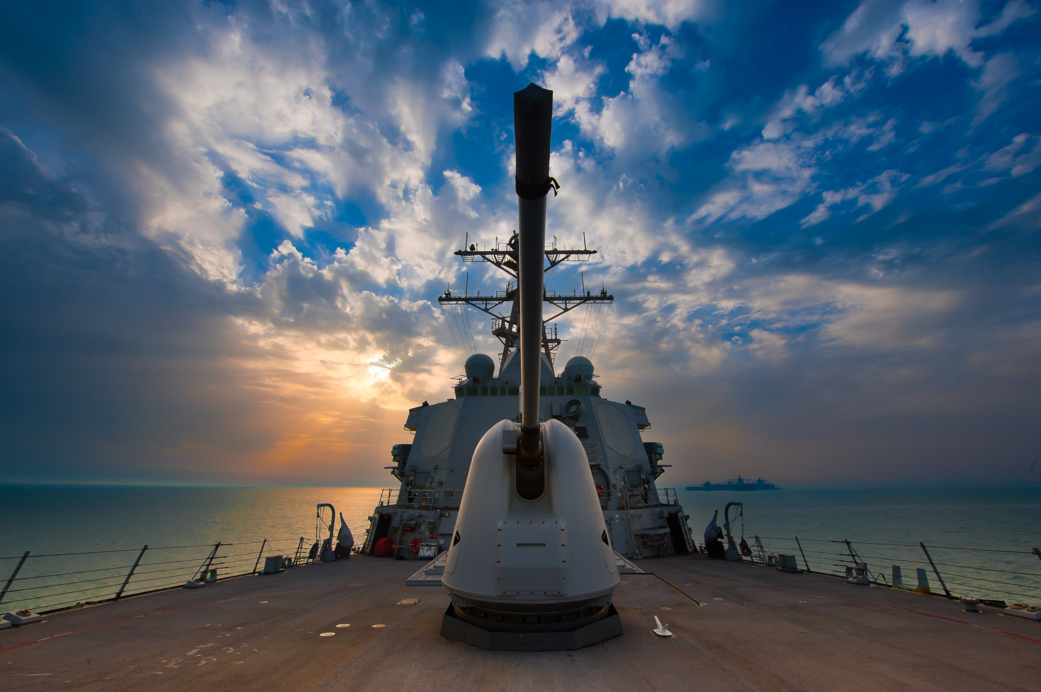 ARABIAN SEA (March 22, 2011) The guided-missile destroyer USS Higgins (DDG 76) is underway in the Arabian Gulf. Higgins is deployed with the Carl Vinson Carrier Strike Group supporting maritime security operations and theater security cooperation efforts in the U.S. 5th Fleet area of responsibility. (U.S. Navy photo by Lt. Cmdr. Alex T. Mabini/Released)